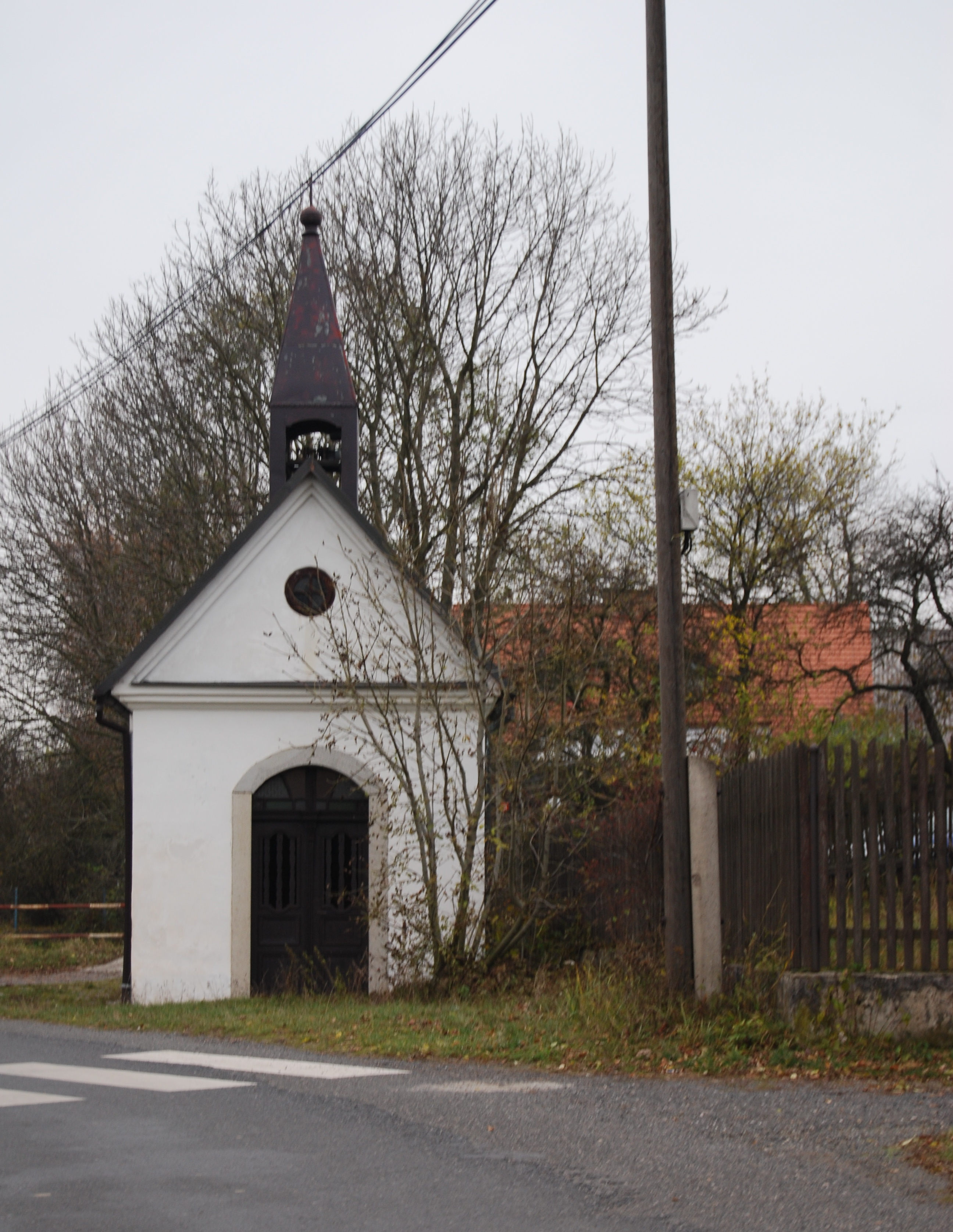 Narysov village in Příbram District, Czech Republic. Chapel